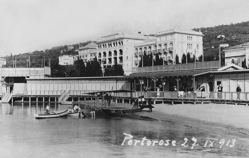 Postcard of Portorož with hidroplane